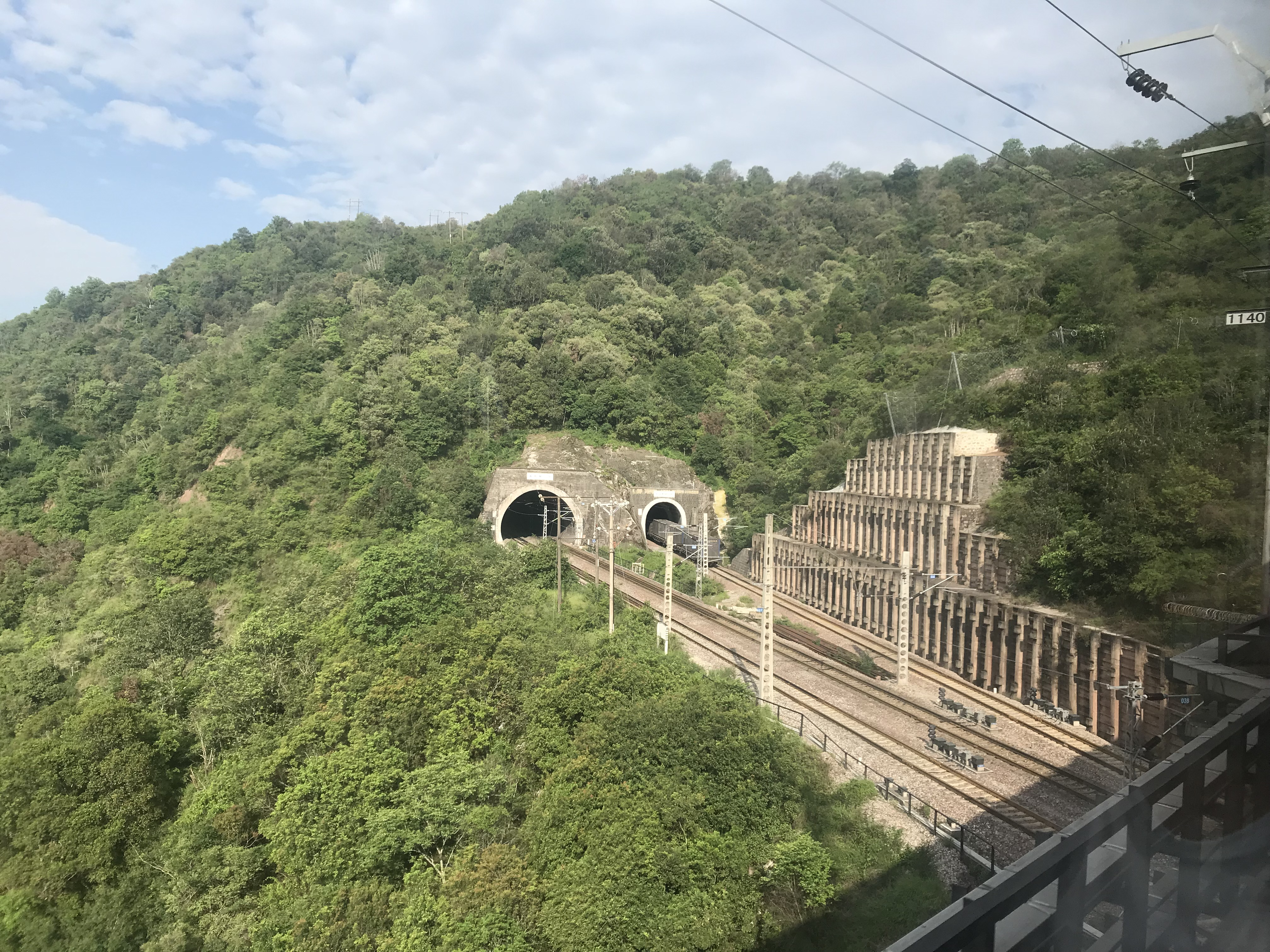 This station was closed in 2014, but re-opened in 2018